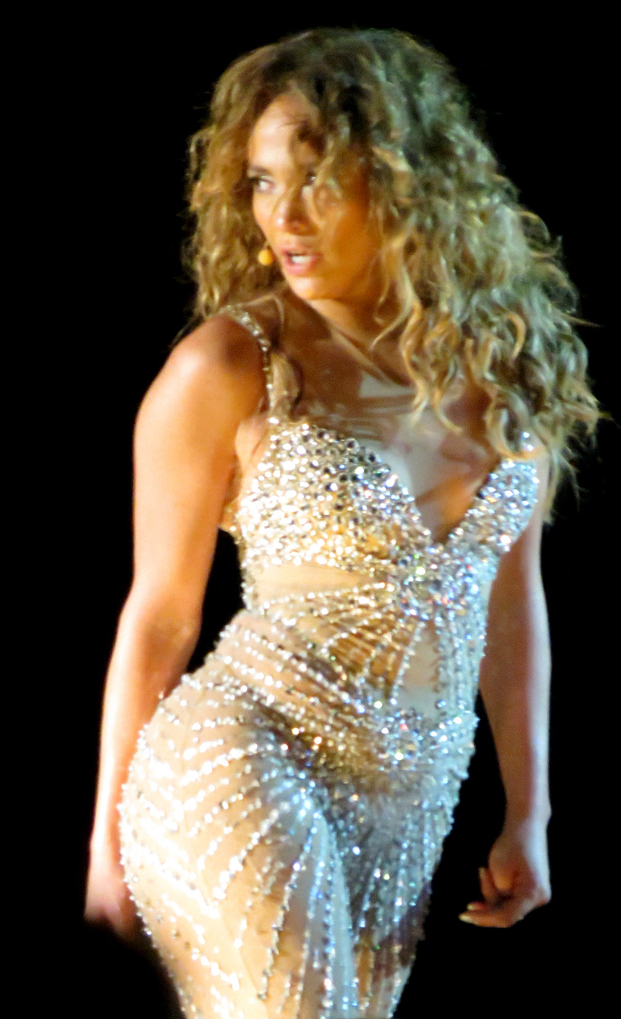 Jennifer Lopez live at the Pop Music Festival in São Paulo, Brazil (June 2012).